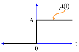 Heaviside function